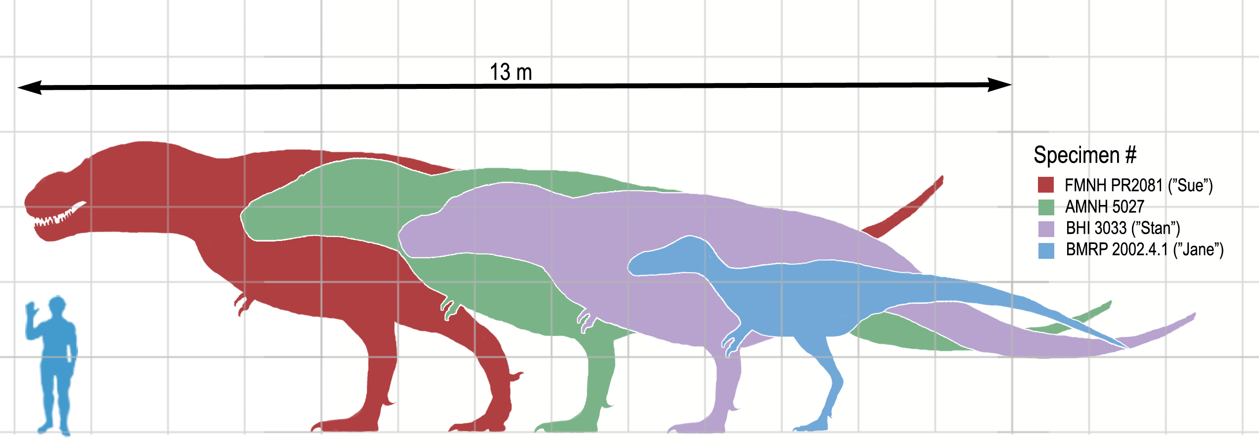 Scale chart for various specimens of Tyrannosaurus rex. Relative sizes based on skeletal drawings by Scott Hartman. Silhouettes adapted from original drawings by Matt Martyniuk.